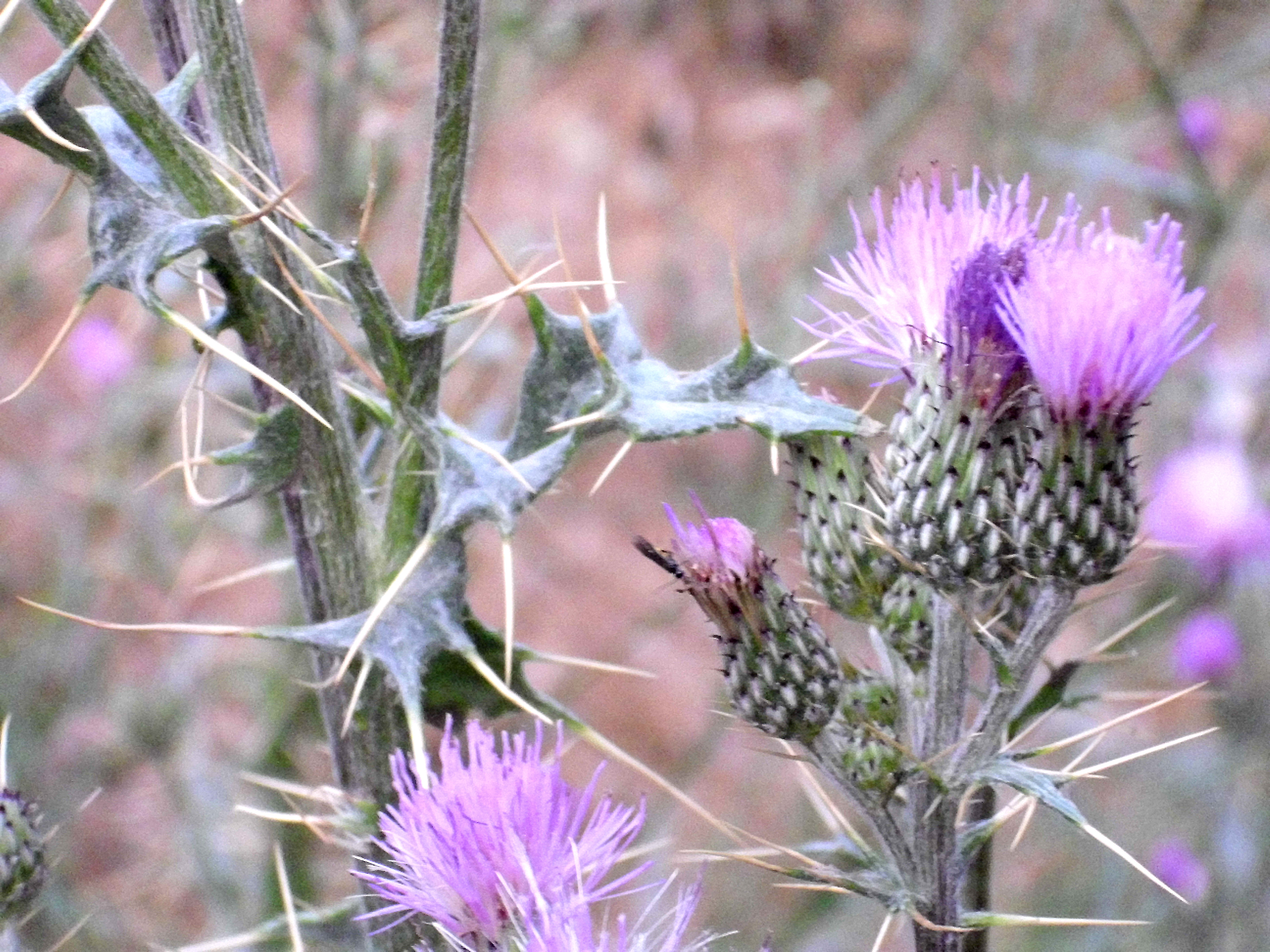 Cirsium pyrenaicum close up, Sierra Nevada, Spain